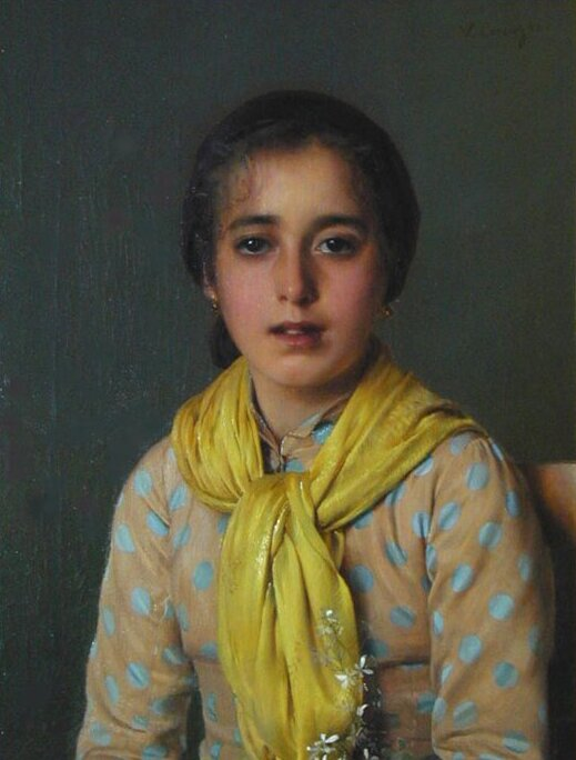 Girl with Yellow Shawl - oil on canvas; Collection of Fred and Sherry Ross